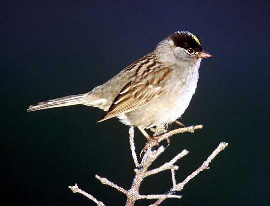 Golden-crowned Sparrow (Zonotrichia atricapilla. Please be aware this is a New World sparrow, not a New World warbler!)